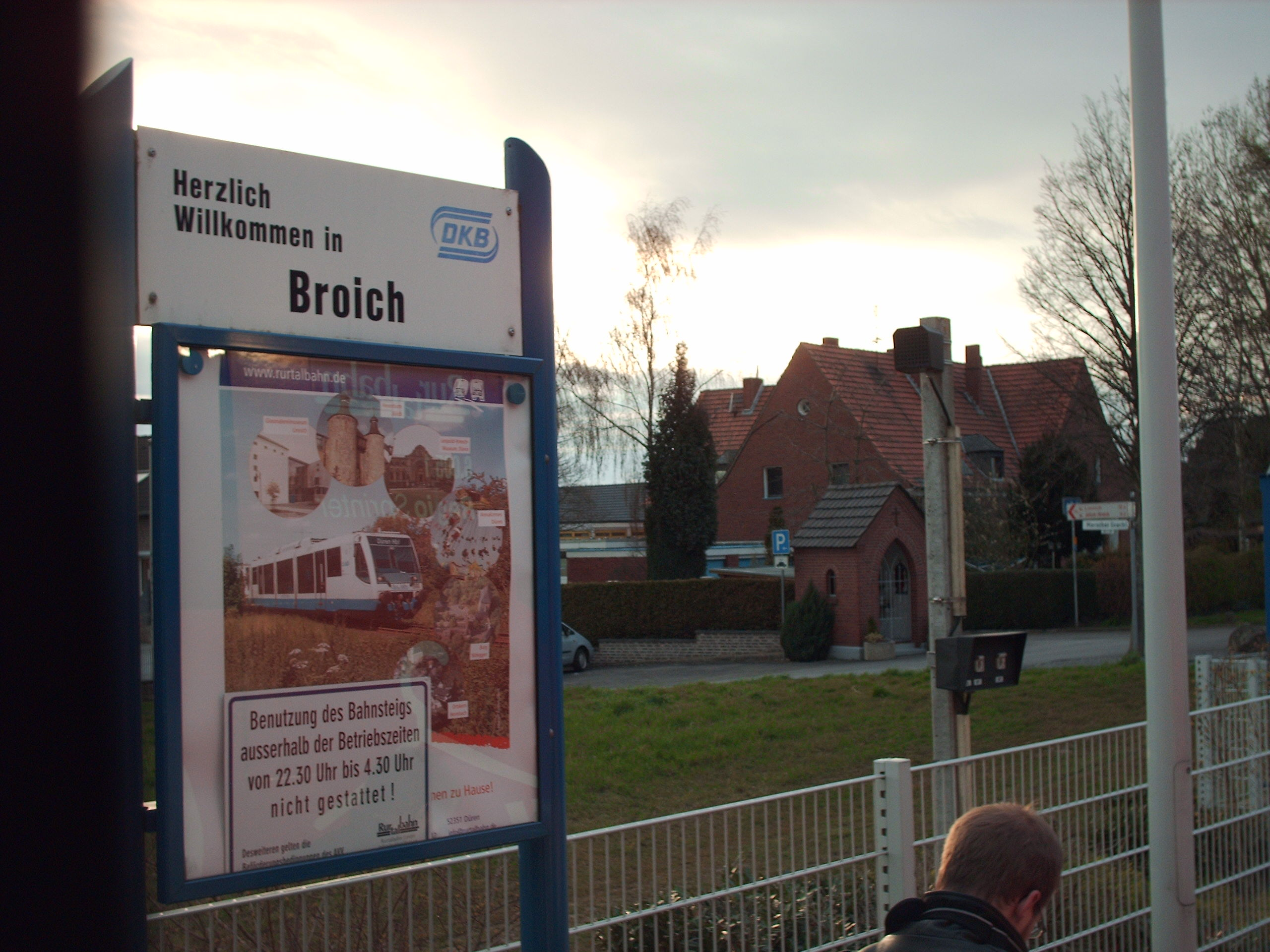 Jülich-Broich station, Jülich, Germany check usage